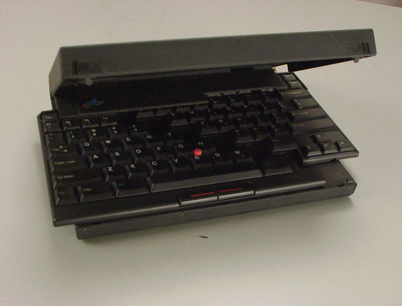 IBM ThinkPad 701 with Butterfly Keyboard. I am releasing image under GFDL licensing